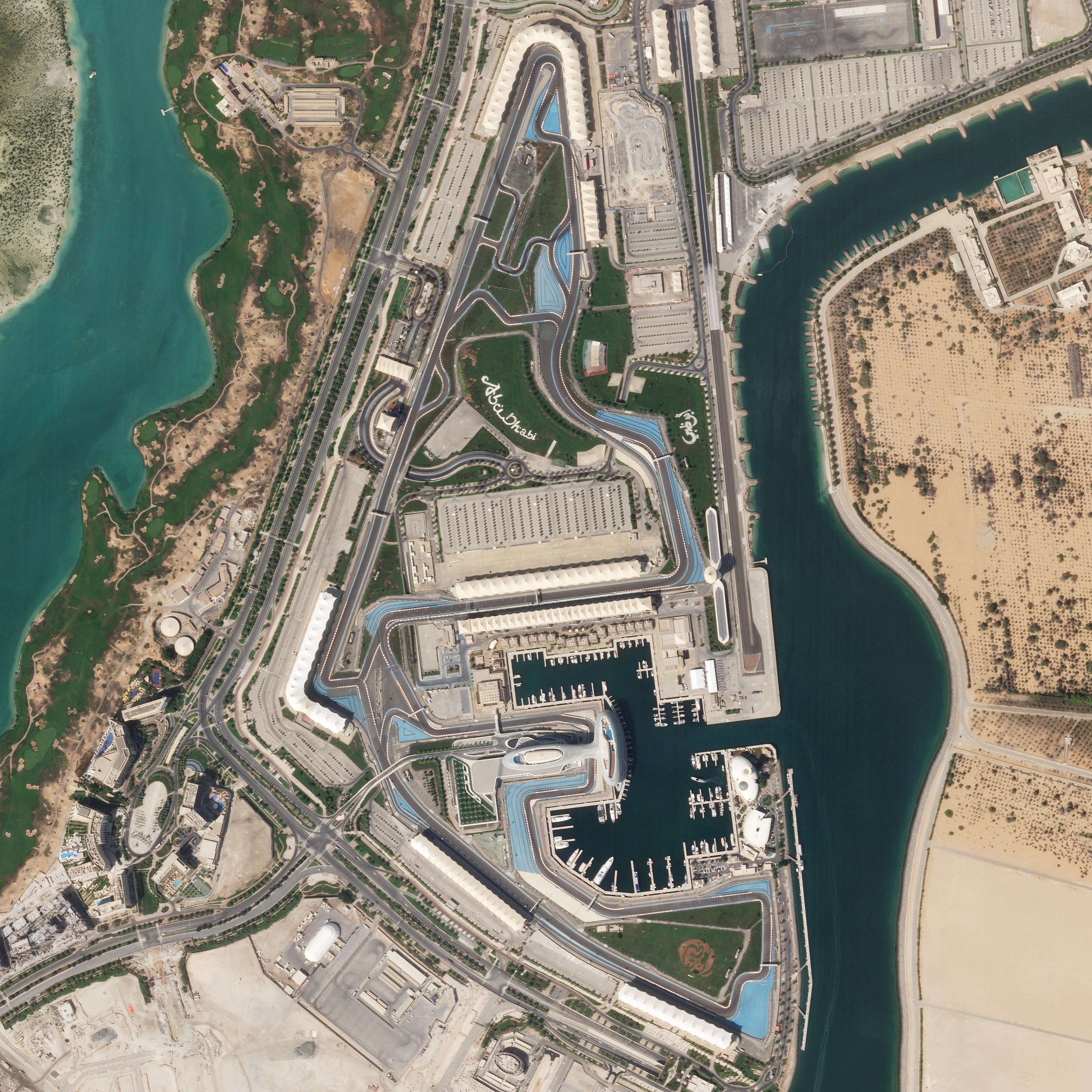 The Yas Marina Circuit, the venue for the Abu Dhabi Grand Prix, situated on Yas Island, about 30 minutes from the UAE capital of Abu Dhabi. Image taken on October 12, 2018, by a Planet Labs SkySat satellite.